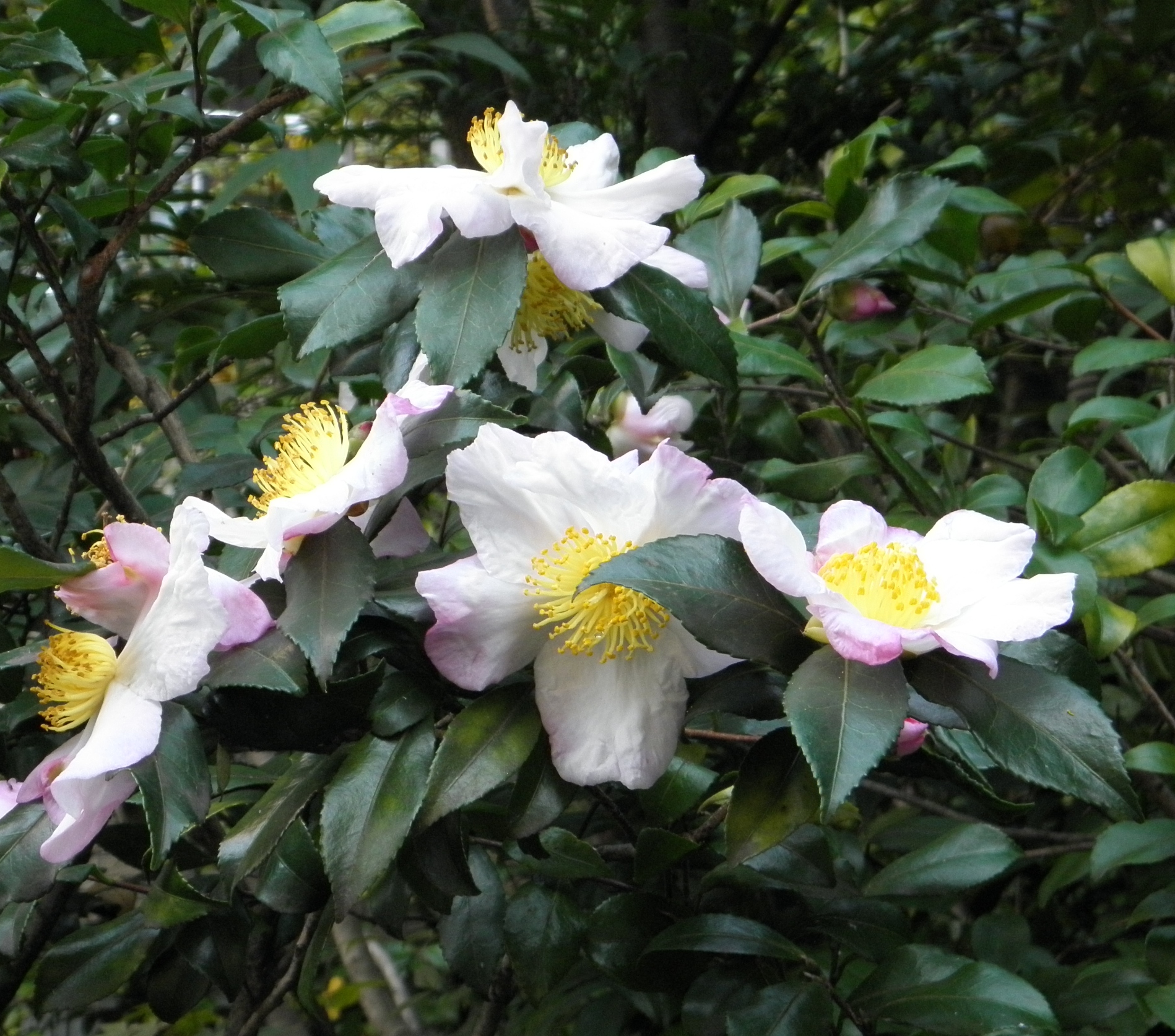 Attractive white flowers with a pinkish tinge and bright yellow stamens